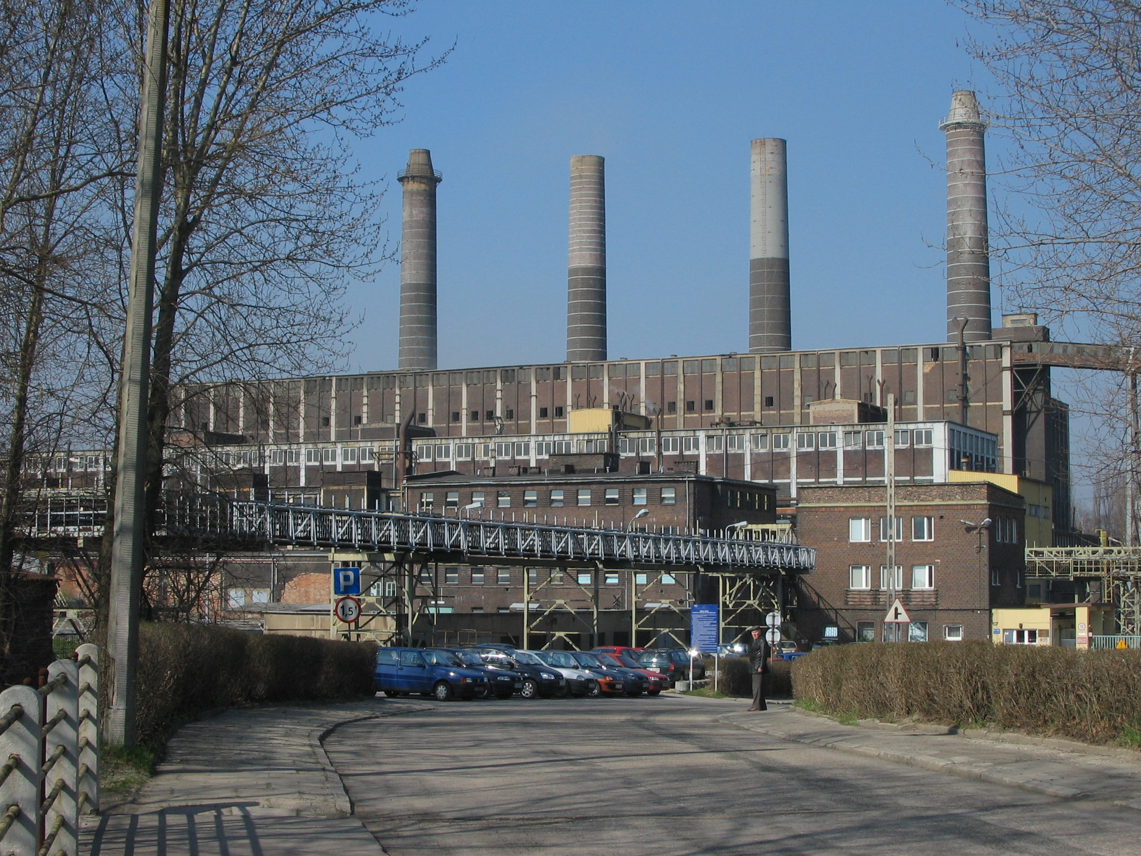 Heat and Power Plant in Bytom Miechowice